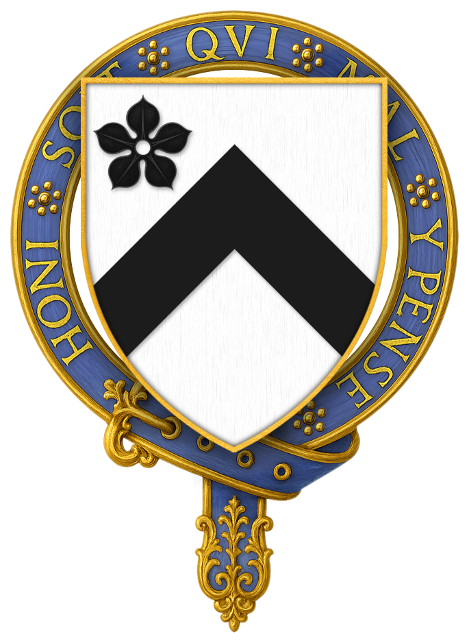 Coat of Arms of Sir Thomas Rempston, KG GODFREY, John T., Notes on the Churches of Nottinghamshire, Hundred of Bingham, London: Phillimore & Co., 1907 - p. 23 (armorial illustration) “...the arms of Rempstone, Argent, a chevron sable, in the dexter chief a mullet peirced of the last...Sir Thomas Rempstone, who was Knight of the Garter, left three daughters...”